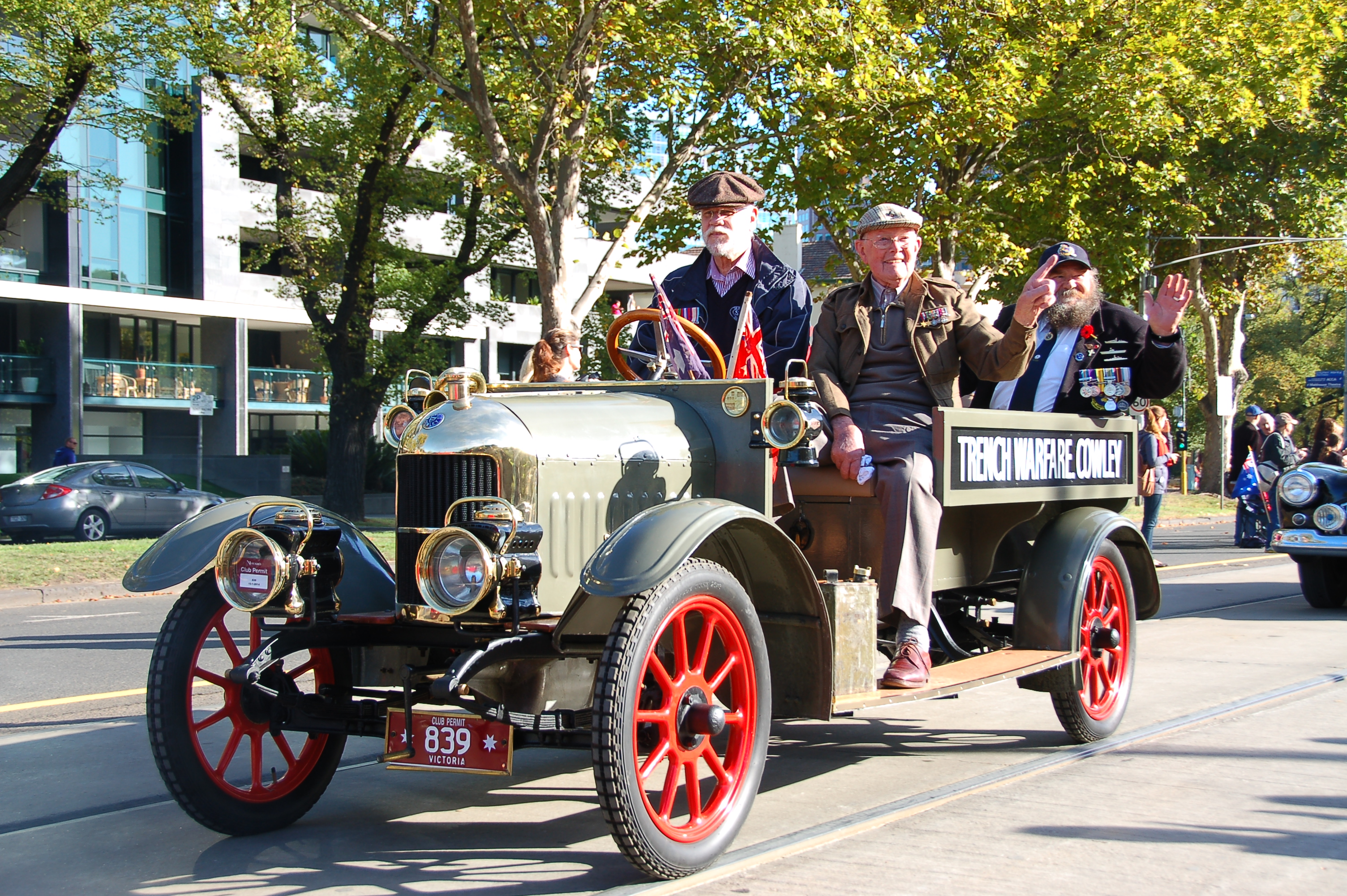 Morris Cowley, Continental engine, 1916.source of informationANZAC Day Parade 2013 in Melbourne. Now the oldest Morris Cowley commercial in existence as well as the fourth oldest Morris Cowley further information about this particular vehicle